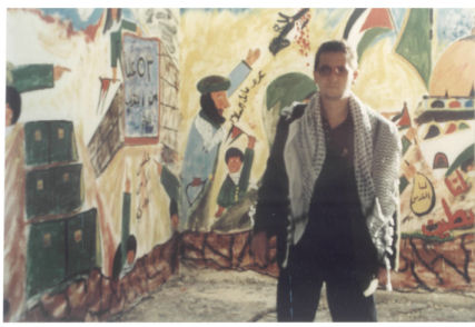 Mihai Antonescu in Rashidiya Camp, South Lebanon, 2001Română: Mihai Antonescu în Tabăra Rashidiya, sudul Libanului, 2001